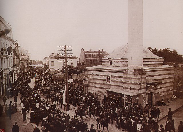 Aladja Mosque, Plovdiv (demolished 1923)